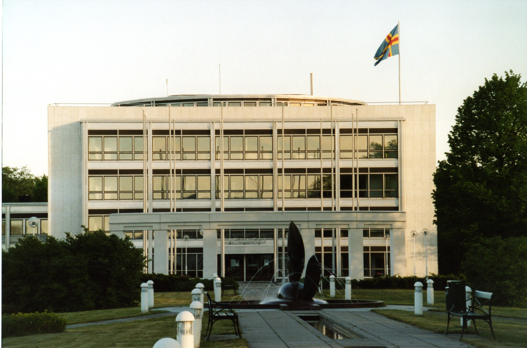 The Åland parliament building in Mariehamn